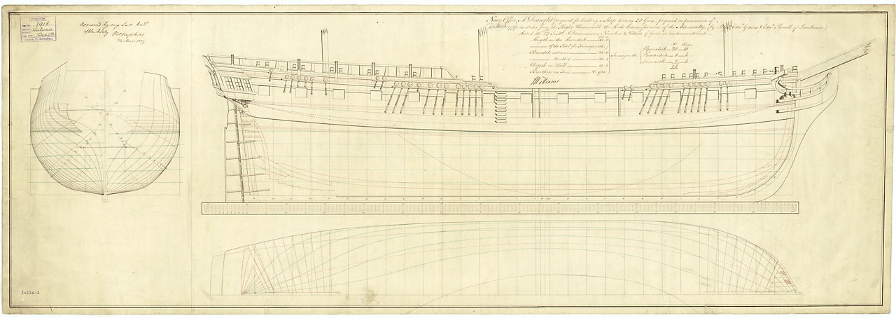 LATONA 1781 lines